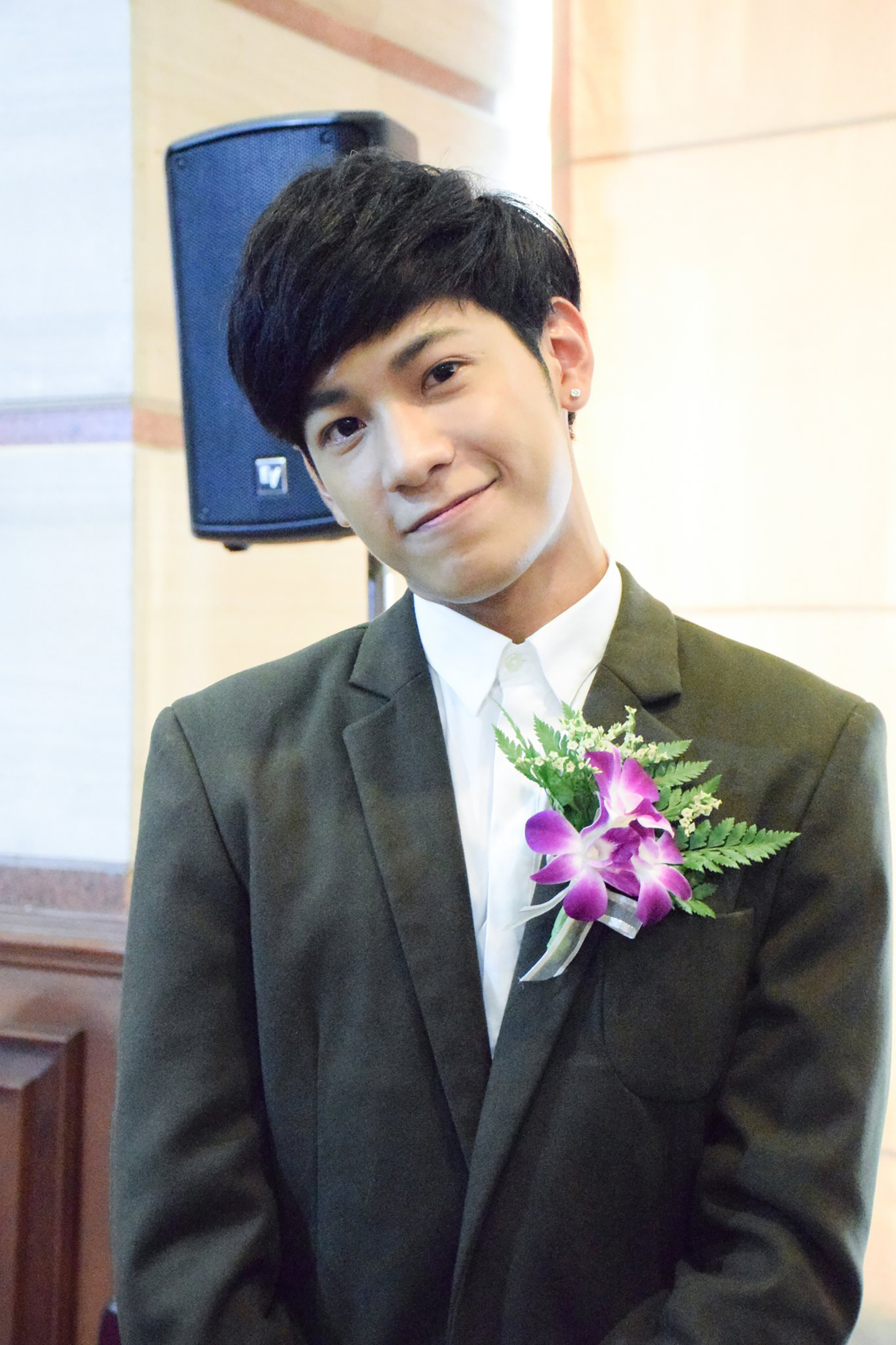 Singto Prachaya